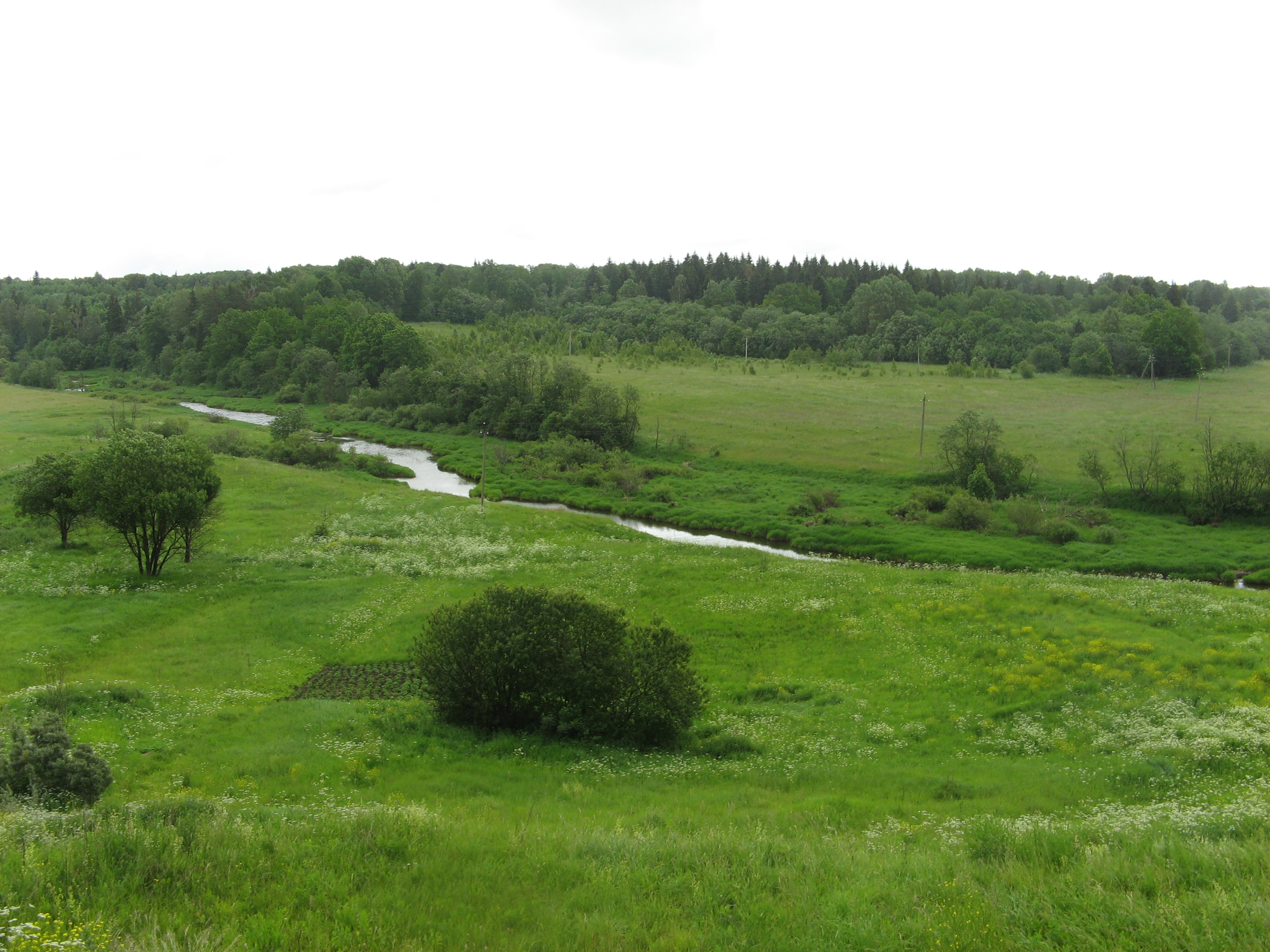 Yauza